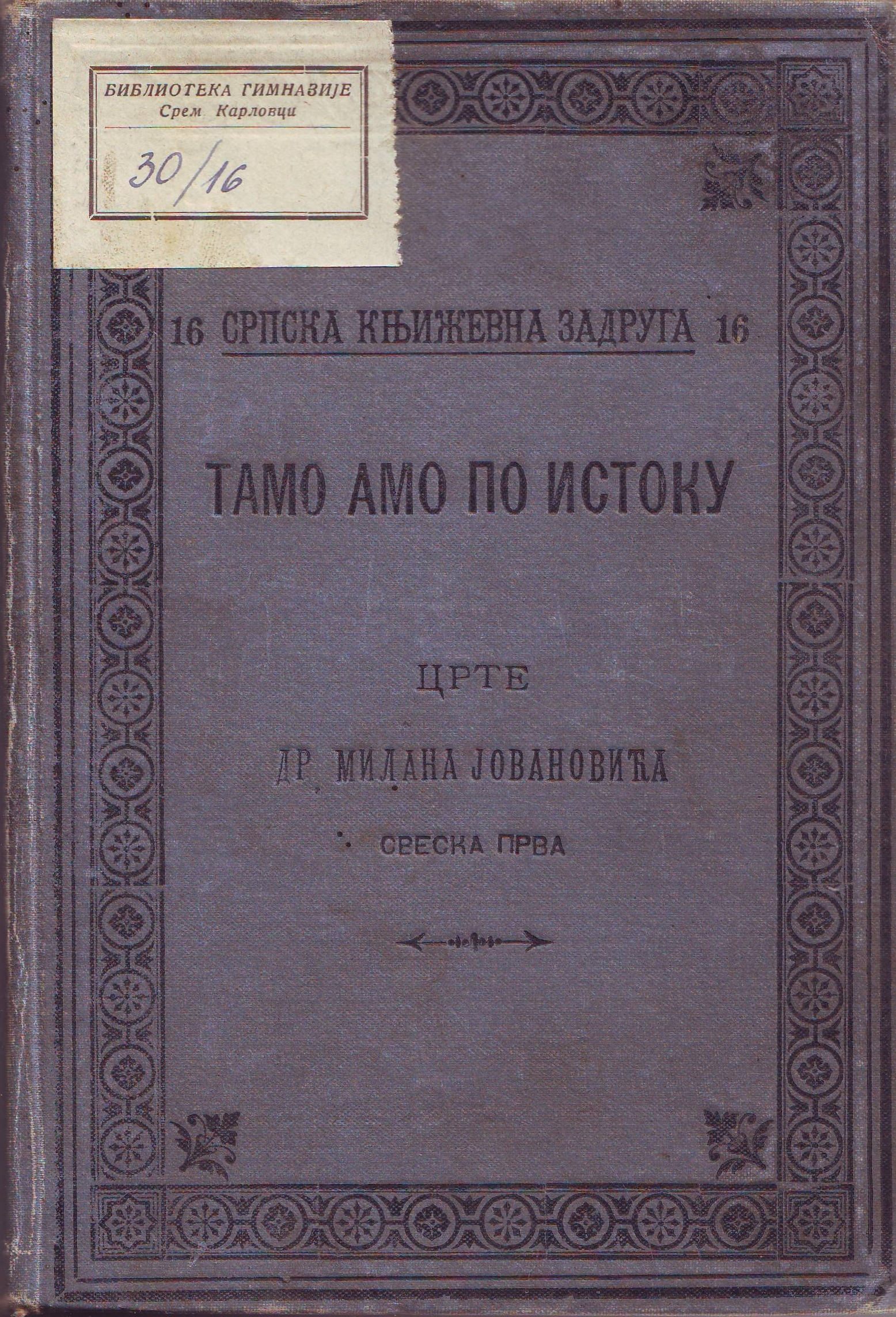 Cover of volume I of the travelogue Tamo amo po Istoku (1894) by Milan Jovanović Morski. Srpski (latinica): Naslovna strana prve knjige putopisa Tamo amo po Istoku (1894) Milana Jovanovića Morskog.